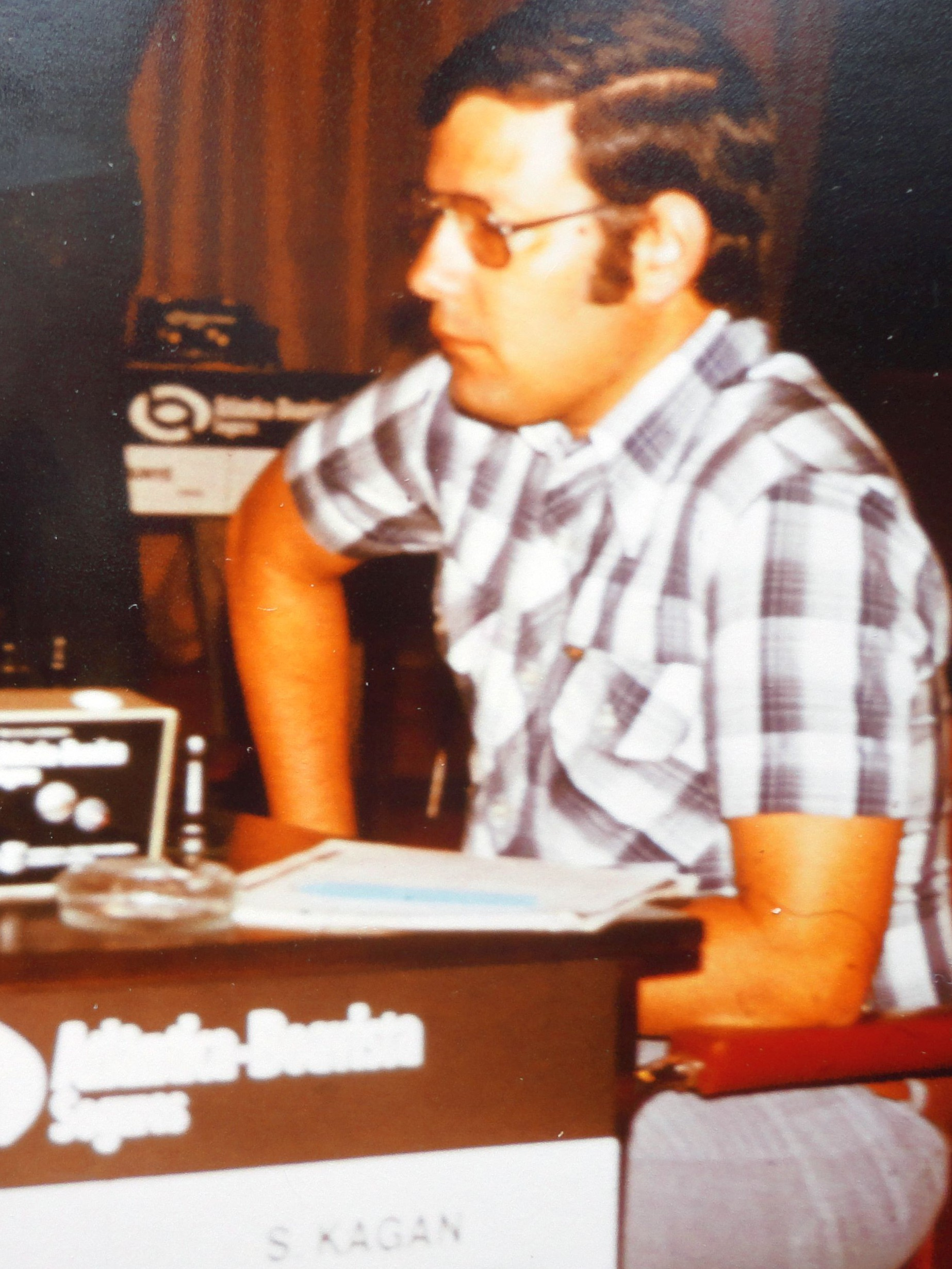 Shimon Kagan, interzonal tournament 1979 at Rio der Janeiro.